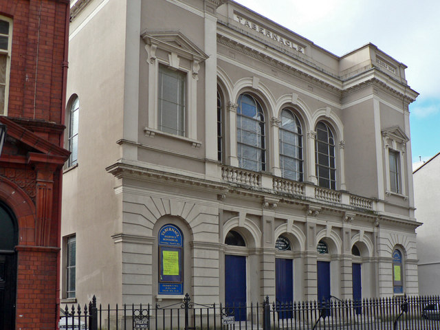 Tabernacle Welsh Baptist Chapel, The Hayes, Cardiff A building listed by Cadw, the historic environment service of the Welsh Assembly Government. 'Cadw' (pronounced cad-oo) is a Welsh word meaning 'to keep'.